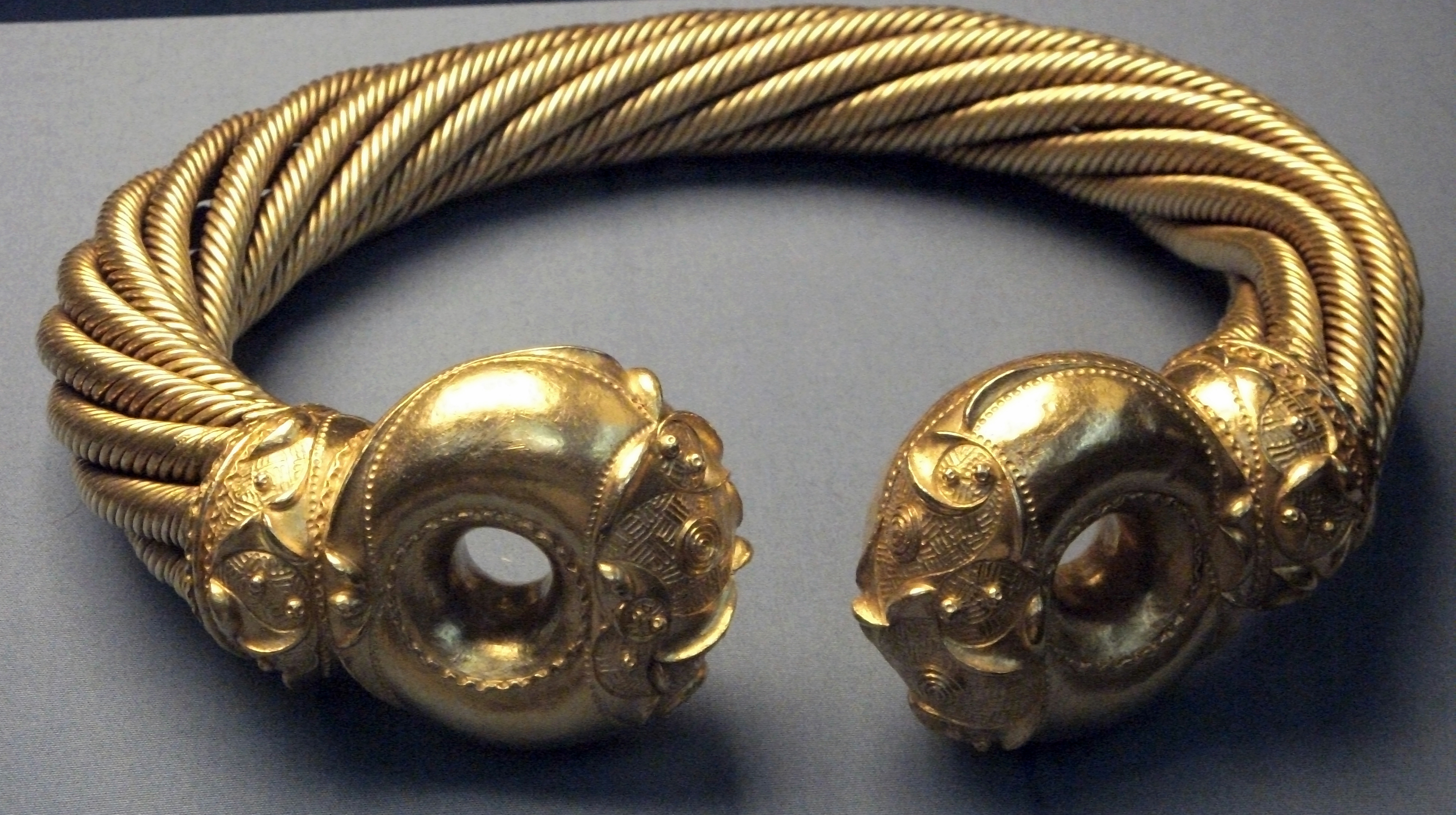 Snettisham Torc